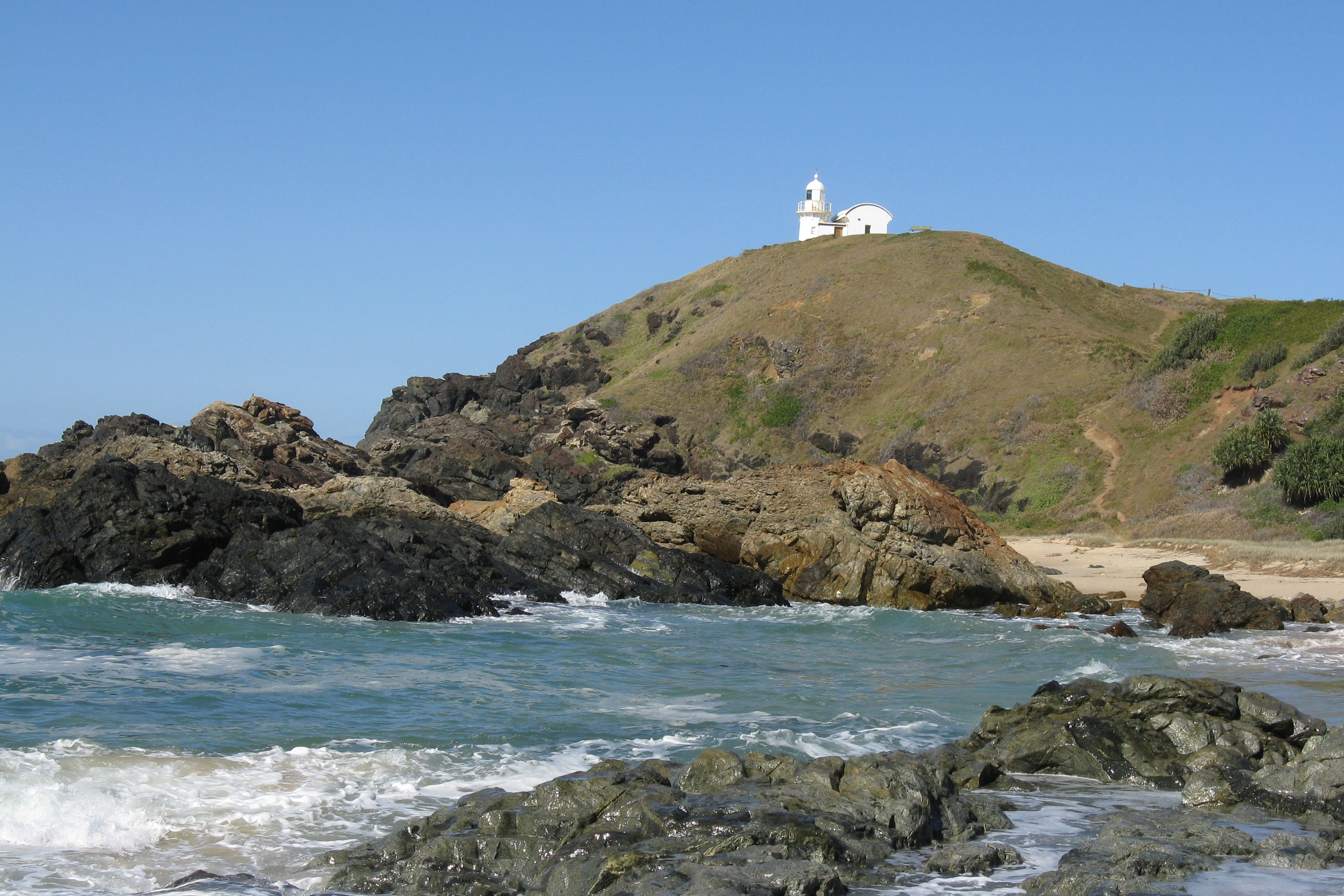 Tacking Point Lighthouse viewed from Miners Beach, New South Wales, Australia